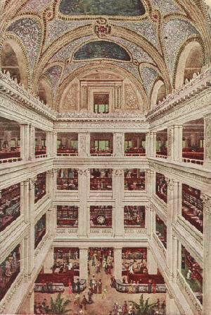 Interior of the Marshall Field's main store on State Street, Chicago Published circa 1910.